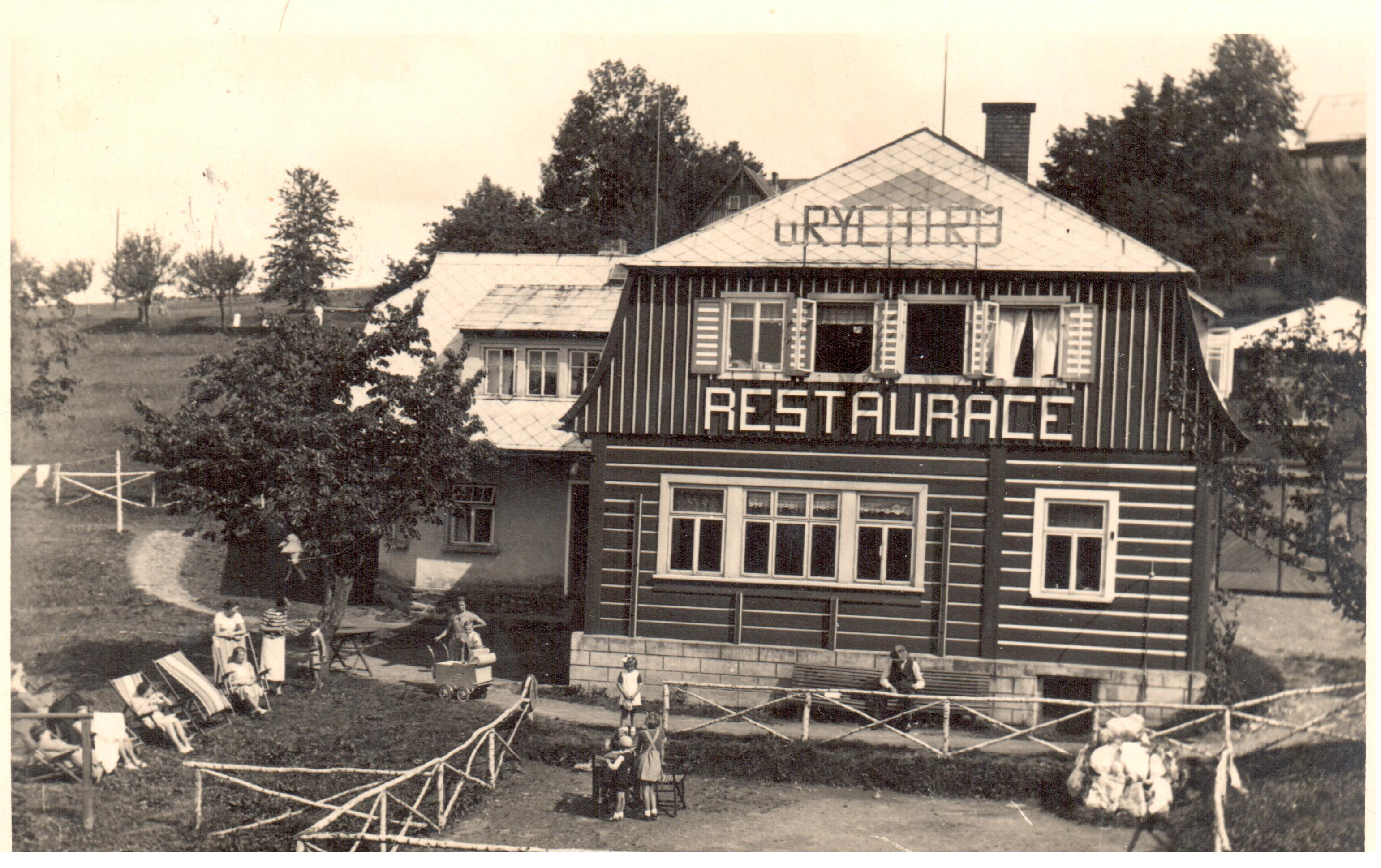 Hotel and restaurant Rychtrova bouda, Benecko, 1934, holiday visitors relax on sun loungers